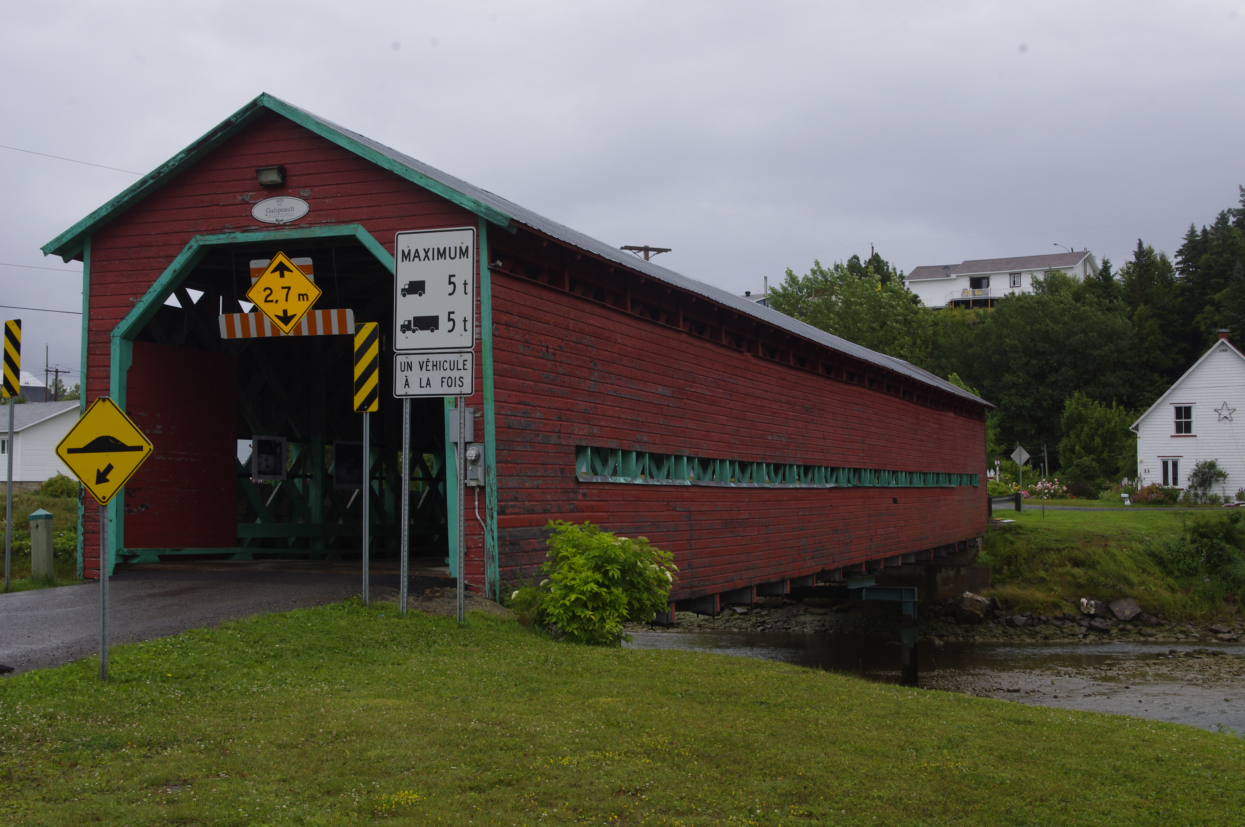 Galipeault Covered Bridge (1923), at Grande-Vallée.